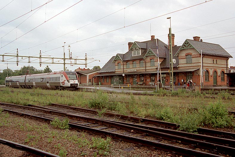 Fagersta central railway station. A train from Västerås bound for Fagersta norra is making a brief stop.